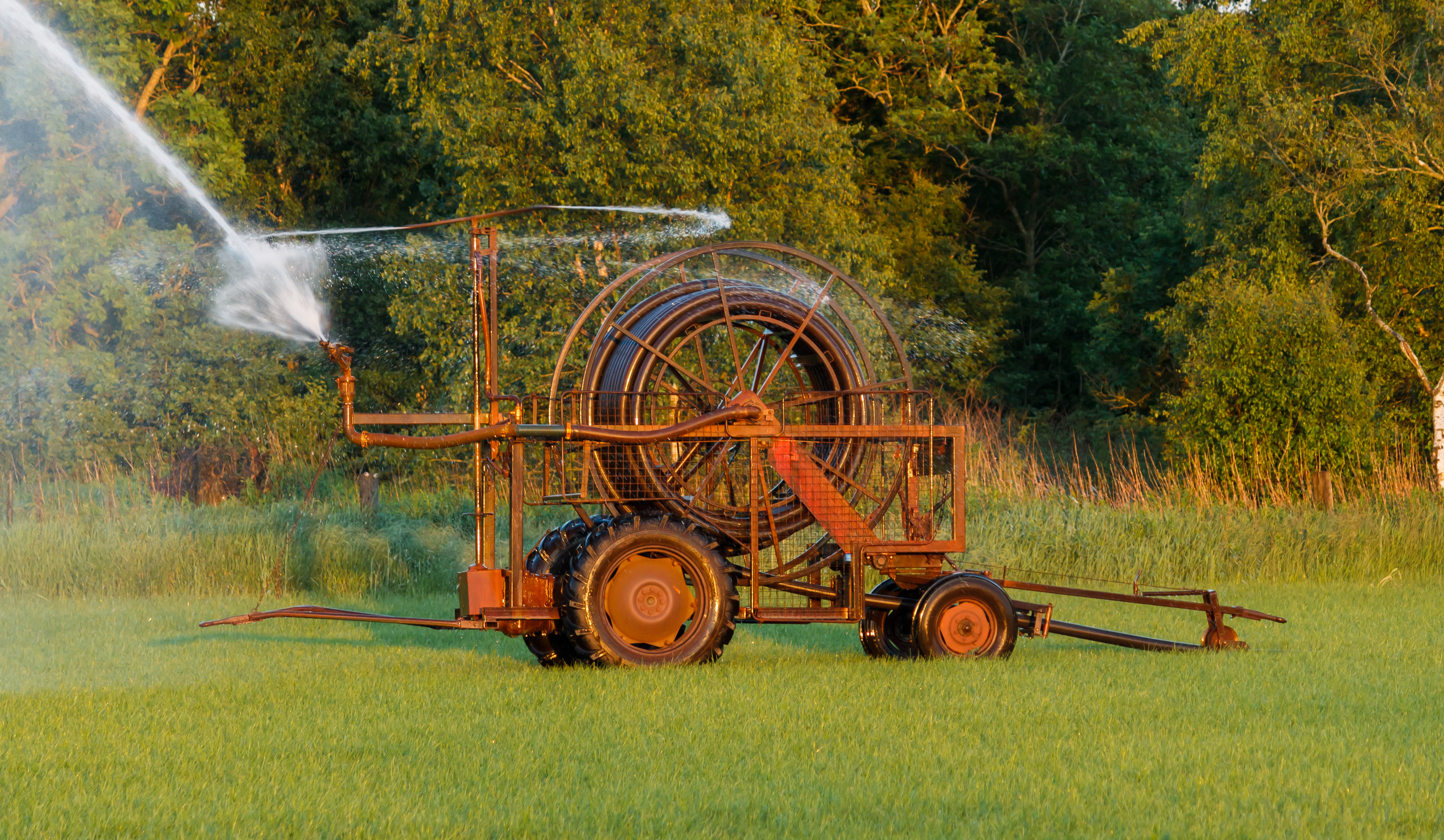 Travelling irrigation sprinkler system on a field between Give and Hampen, Denmark